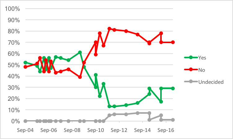 A graphical representation of Eurobarometer and other opinion polls of the Czech population on Euro adoption